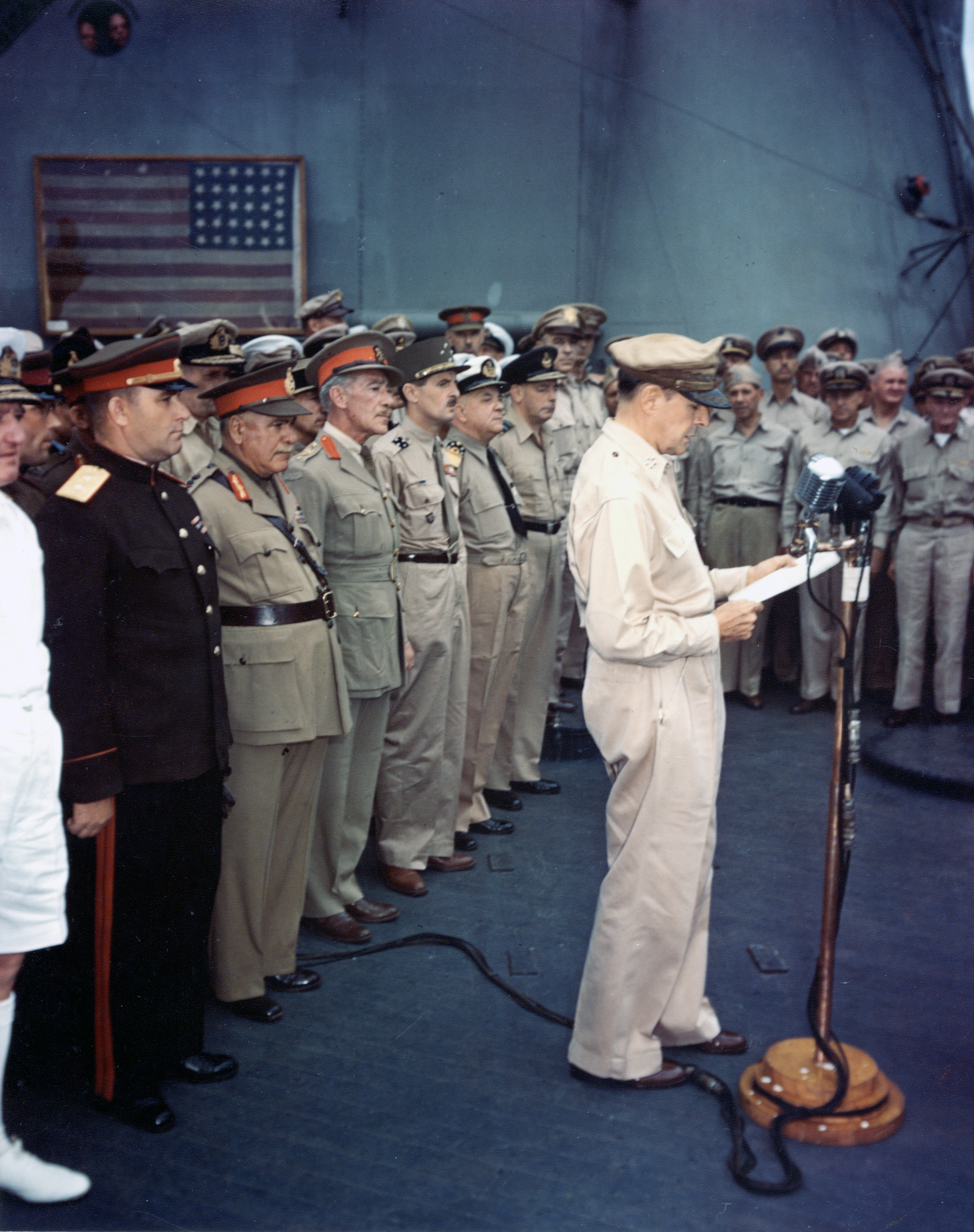 Surrender of Japan, Tokyo Bay, 2 September 1945 General of the Army Douglas MacArthur, Supreme Allied Commander, reading his speech to open the surrender ceremonies, on board USS Missouri (BB-63). The representatives of the Allied Powers are behind him, including (from left to right): Admiral Sir Bruce Fraser, RN, United Kingdom; Lieutenant General Kuzma Derevyanko, Soviet Union; General Sir Thomas Blamey, Australia; Colonel Lawrence Moore Cosgrave, Canada; General Philippe Leclerc, France; Admiral Conrad E.L. Helfrich, The Netherlands and Air Vice Marshal Leonard M. Isitt, New Zealand. Lieutenant General Richard K. Sutherland, U.S. Army, is just to the right of Air Vice Marshal Isitt. Off camera, to left, are the representative of China, General Hsu Yung-chang, and the U.S. representative, Fleet Admiral Chester W. Nimitz, USN. Framed flag in upper left is that flown by Commodore Matthew C. Perry's flagship when she entered Tokyo Bay in 1853.